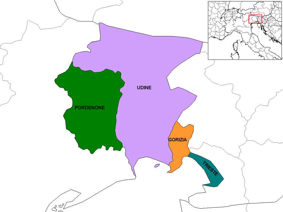 Friuli-Venezia Giulia Provinces